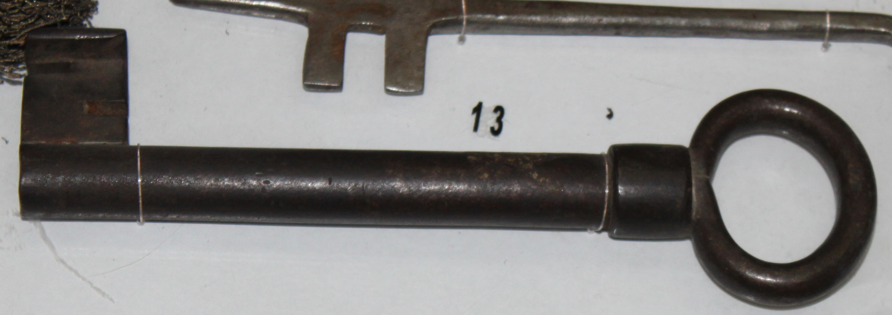 Gəncə qalasının açarı